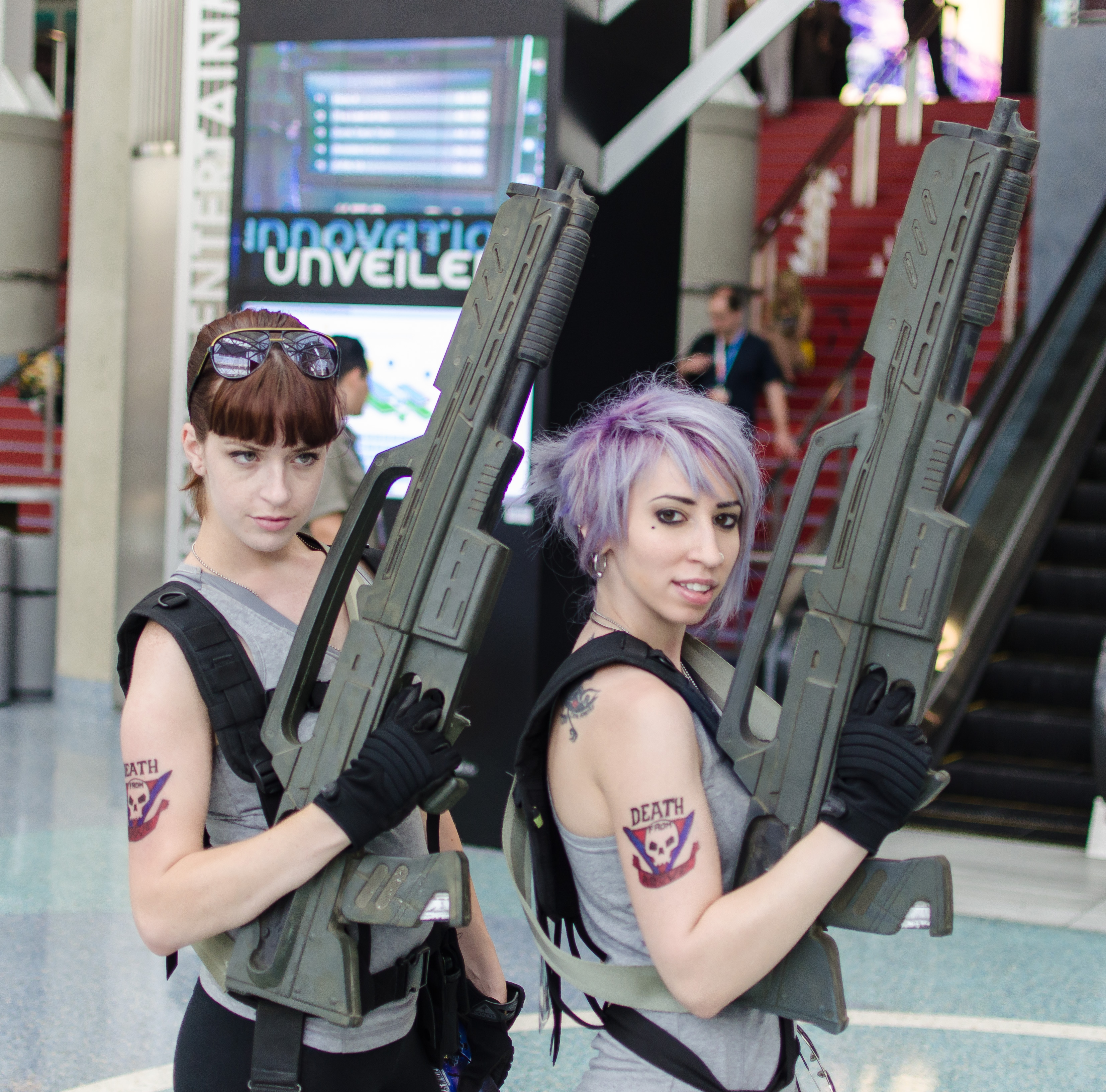 Taken on June 7, 2012 Nikon D5100